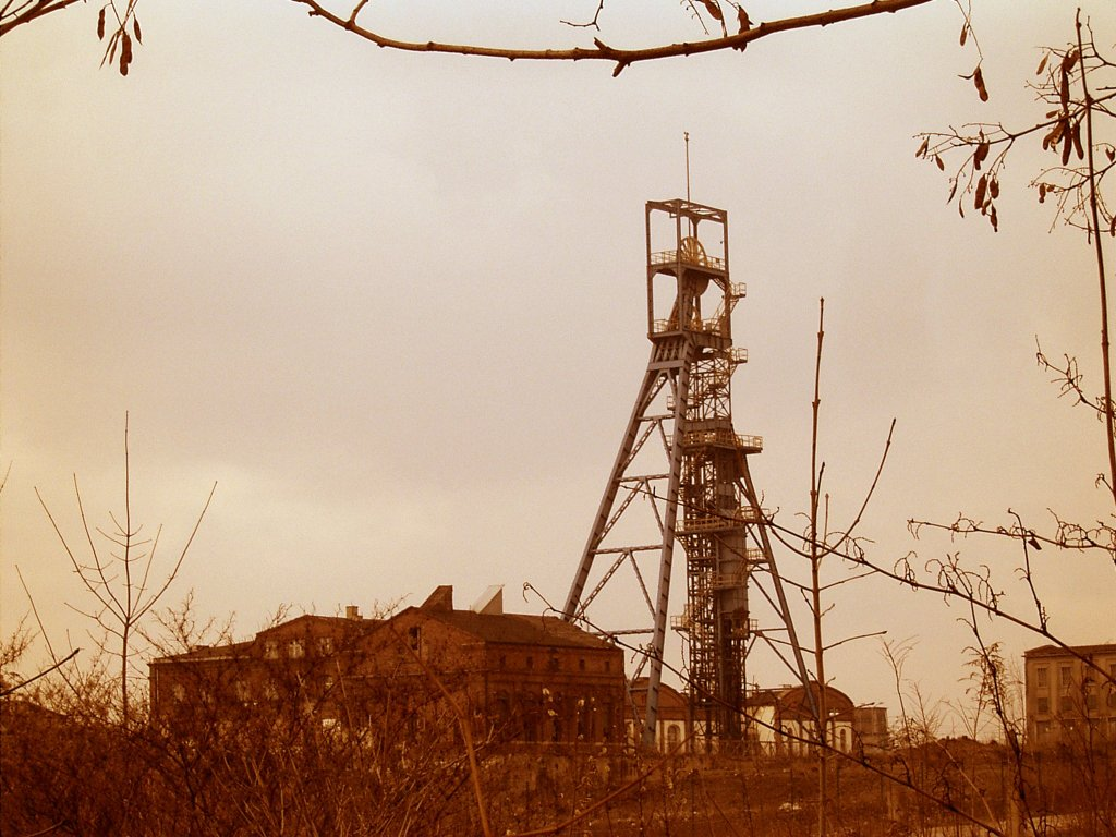 Kilka lat przed budową Silesia City Center. Kto by wtedy pomyślał co tu wyrośnie? A few years before the construction of Silesia City Center. Who would have thought at that time what will emerge from the mine ruins?